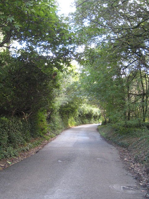 Treskerby near Redruth This quiet lane was many years ago the main London road.